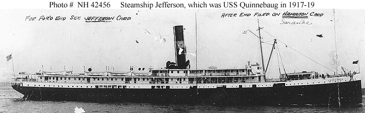 SS Jefferson (American Steamship, 1899). Photographed prior to World War I. Chartered by the Navy on 3 December 1917. Her sister ship, SS Hamilton, had an almost identical career as USS Saranac (ID-1702).